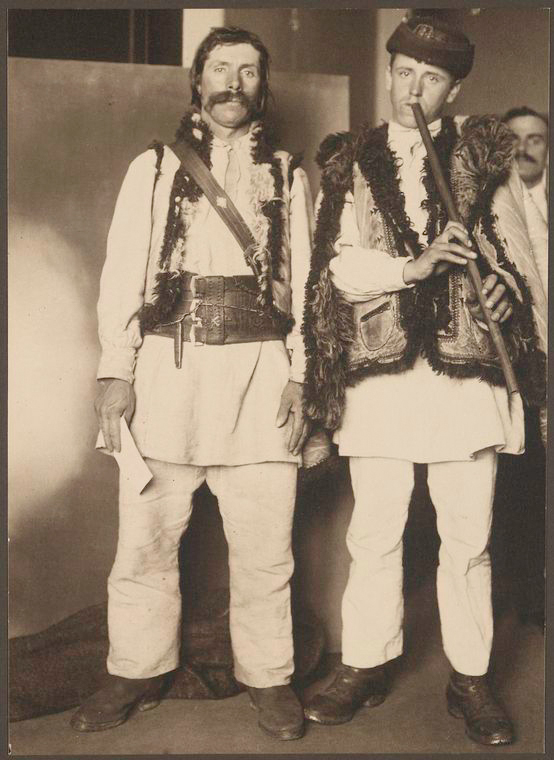 Pipers - Identified as 'Romanian shepherds' in Peter Mesenhöller "Augustus F. Sherman: Ellis Island Portraits 1905-1920" (c1905) p.68.